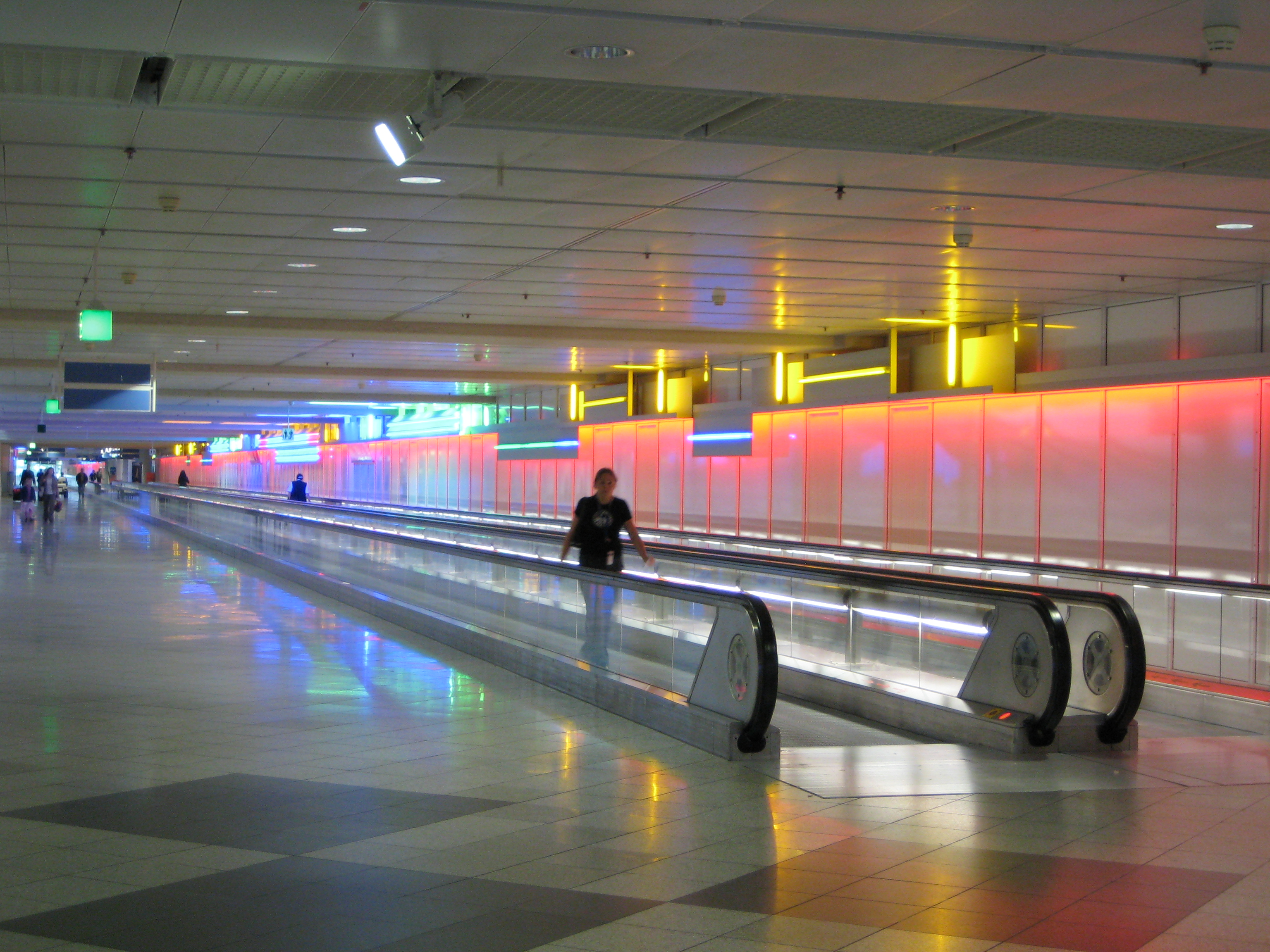 Munich International Airport, Terminal 1, Level 3, walkway